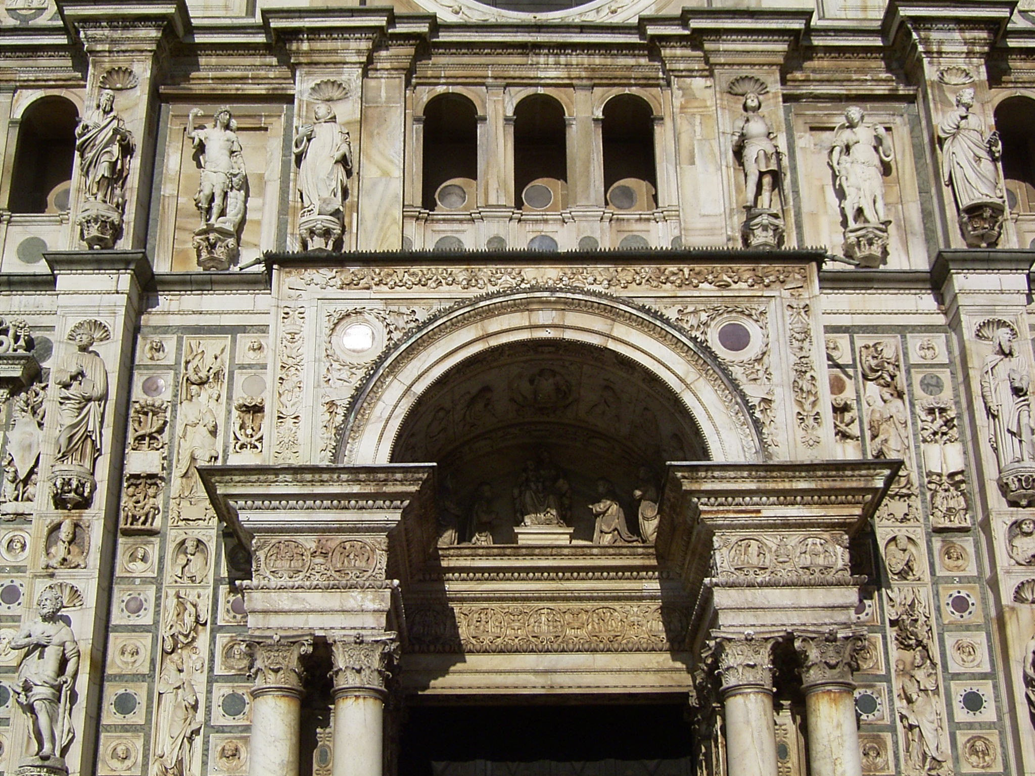 A portion of the portal of the church of the monastery of Certosa di Pavia, near Pavia, Italy.